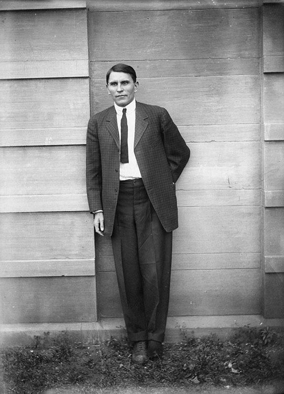 Henry Starr, American bank robber, standing outside a building. (8667, Oklahoma Historical Society Photograph Collection, OHS).